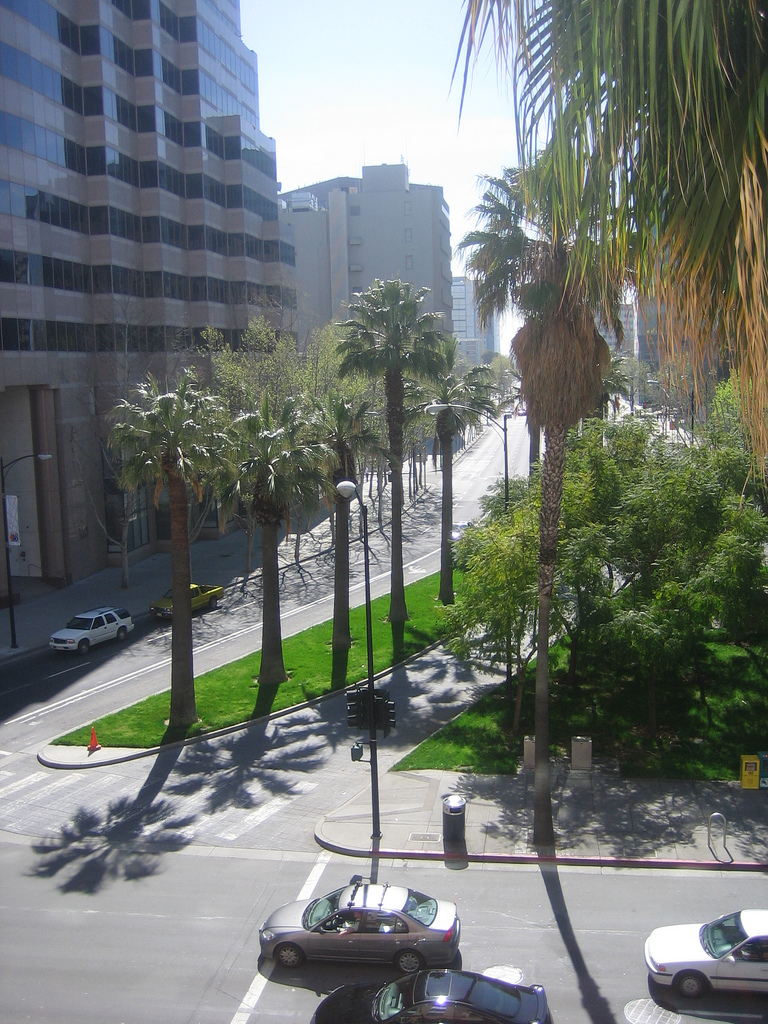 Palm trees lining streets in San Jose, California